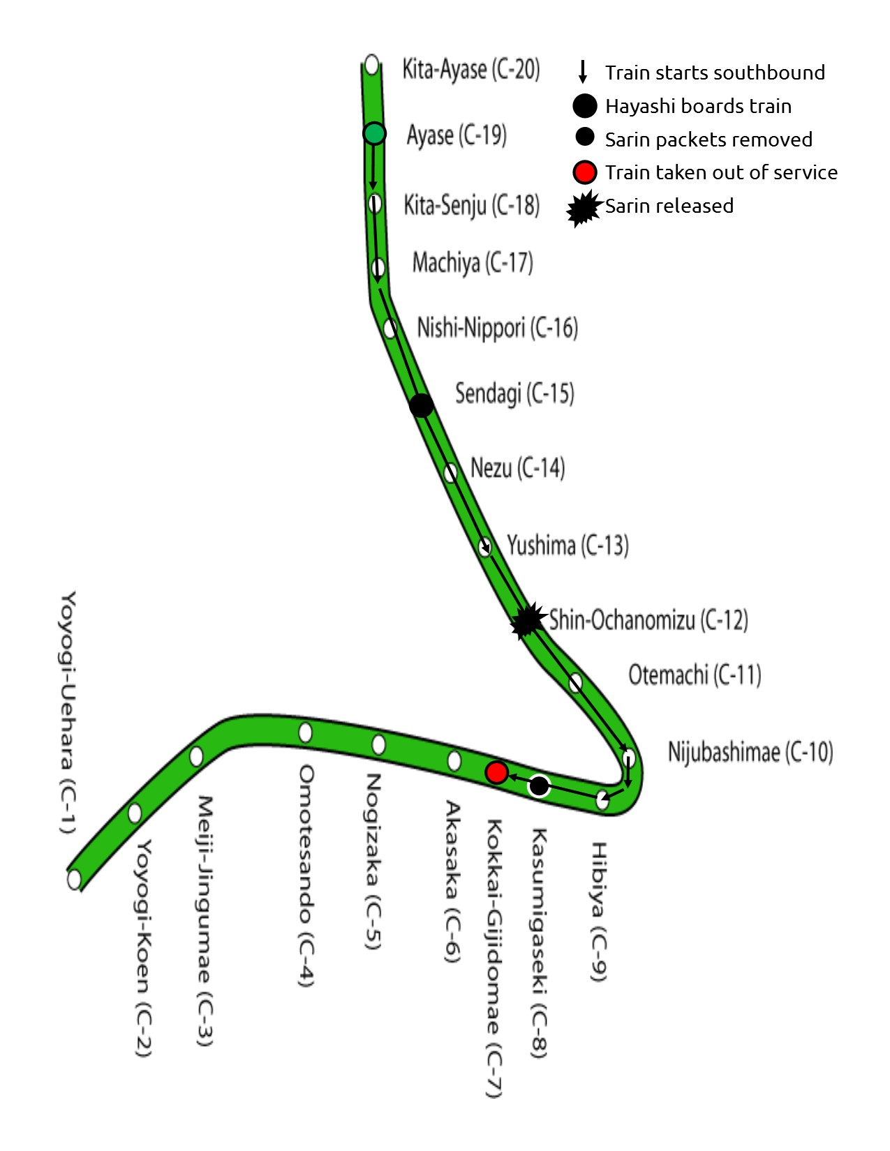 This is a timeline of events that happened on the Chiyoda Line in the Tokyo sarin attack in 1995